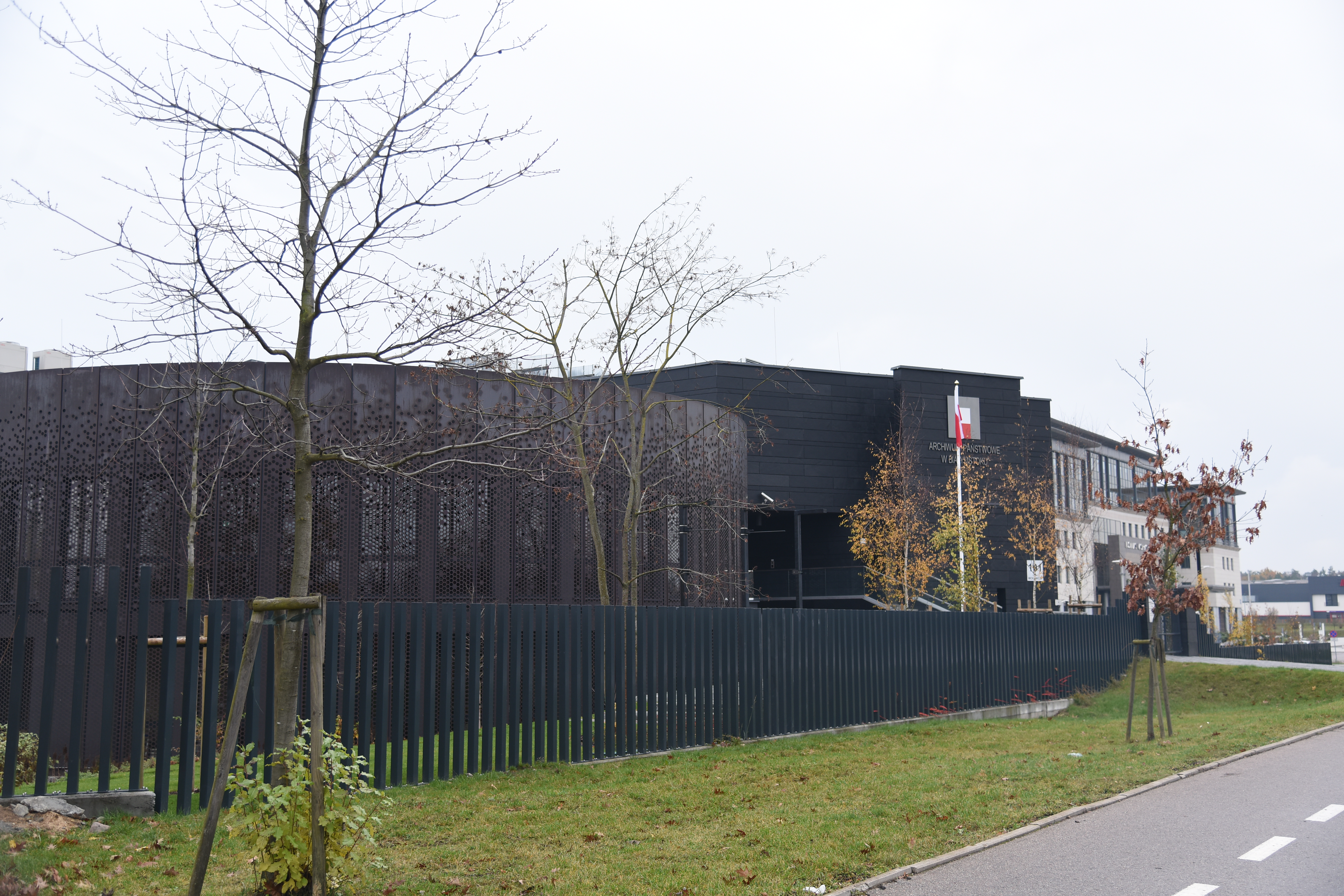 State Archive in Białystok